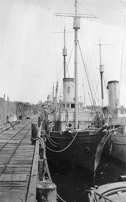 Photo #: NH 300 USS Christabel (SP-162) In port, circa 1918-1919. Taken by Carl A. Stahl, Photographer, USN.